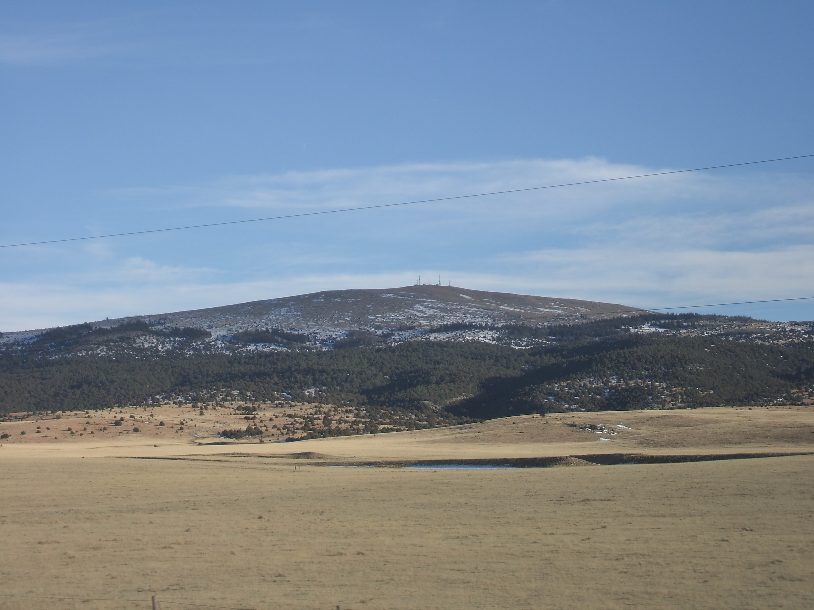 Sierra Grande as seen from the north on US64/87 in Union County, NM.